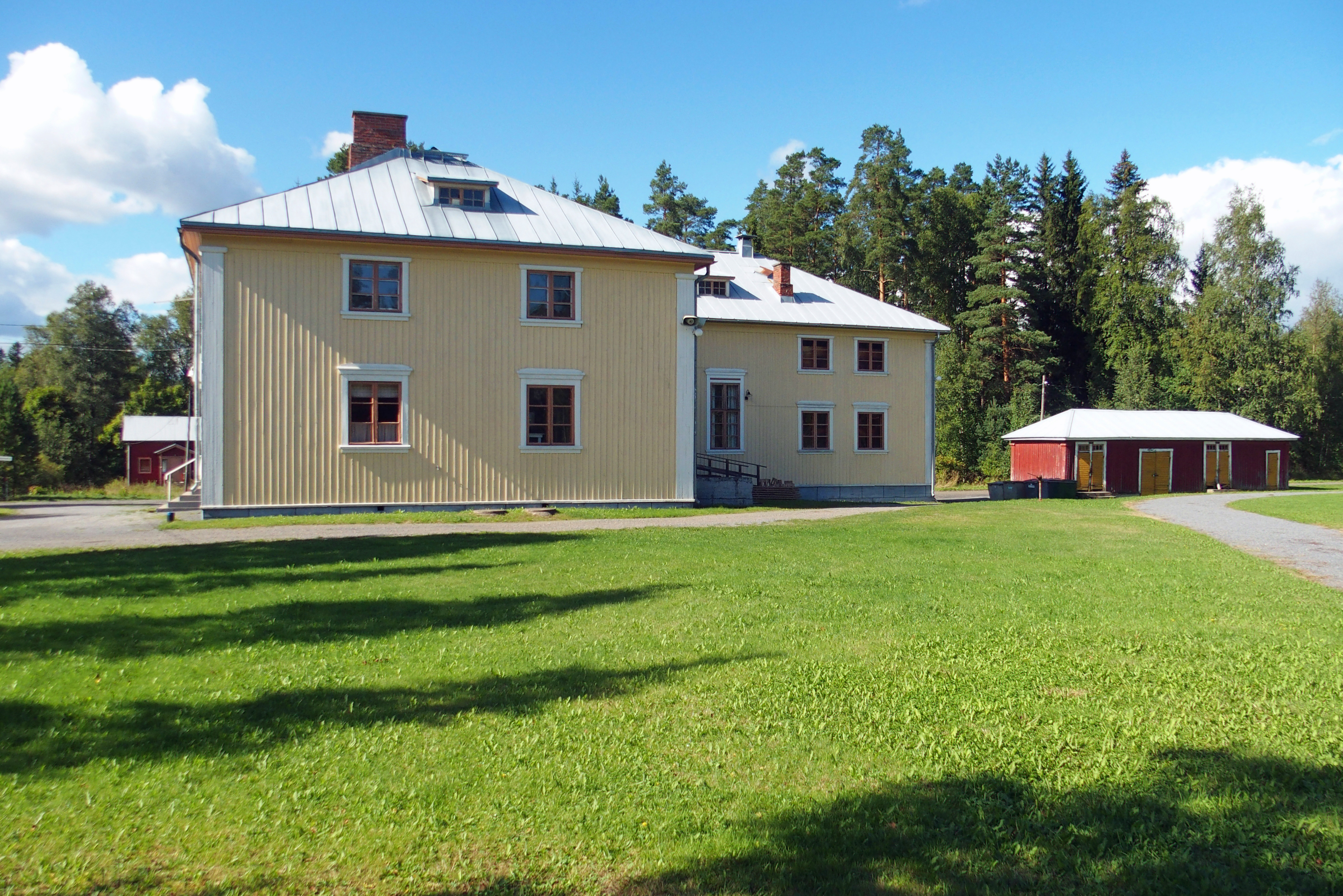 Kauvatsan seuratalo